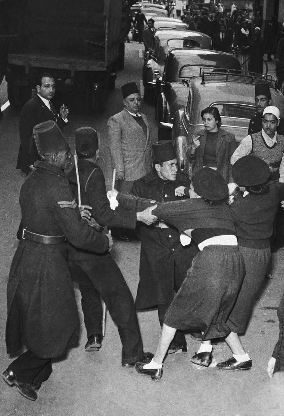 Egyptian women struggle with Cairo police on Jan. 26, 1952 as they are ousted from bank two days ago during anti-British disorders. Women were preventing customers from entering bank. Rioting Egyptian crowds ran wild through Cairo screaming anti-British, pro-Russian slogans.